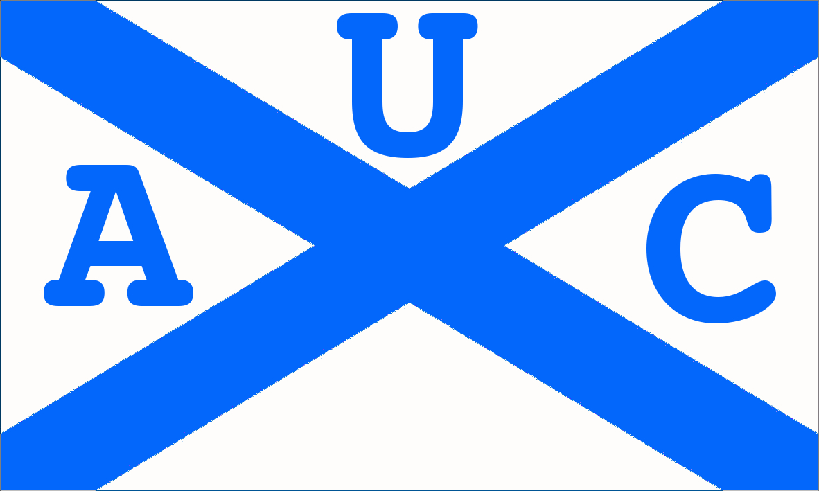 Flag of the former football team Uruguay Athletic Club